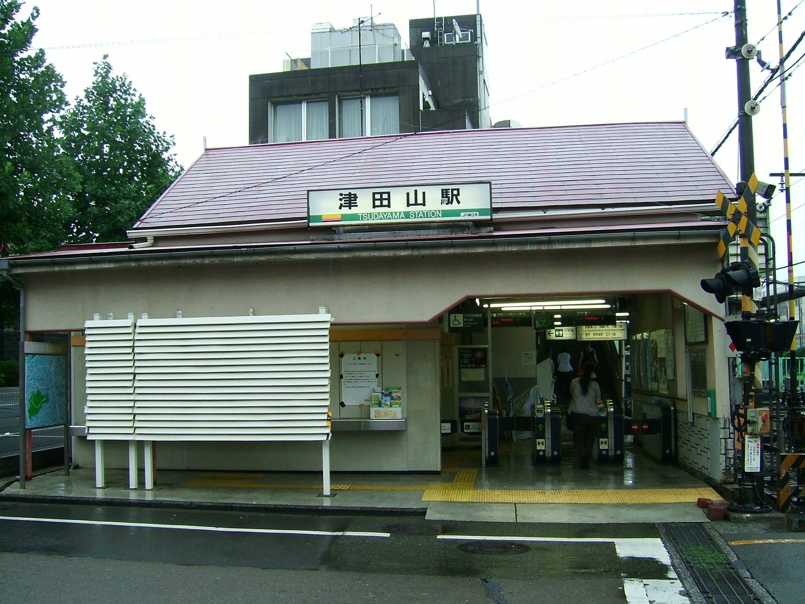 Tsudayama Station entrance (East Japan Railway Nambu Line)